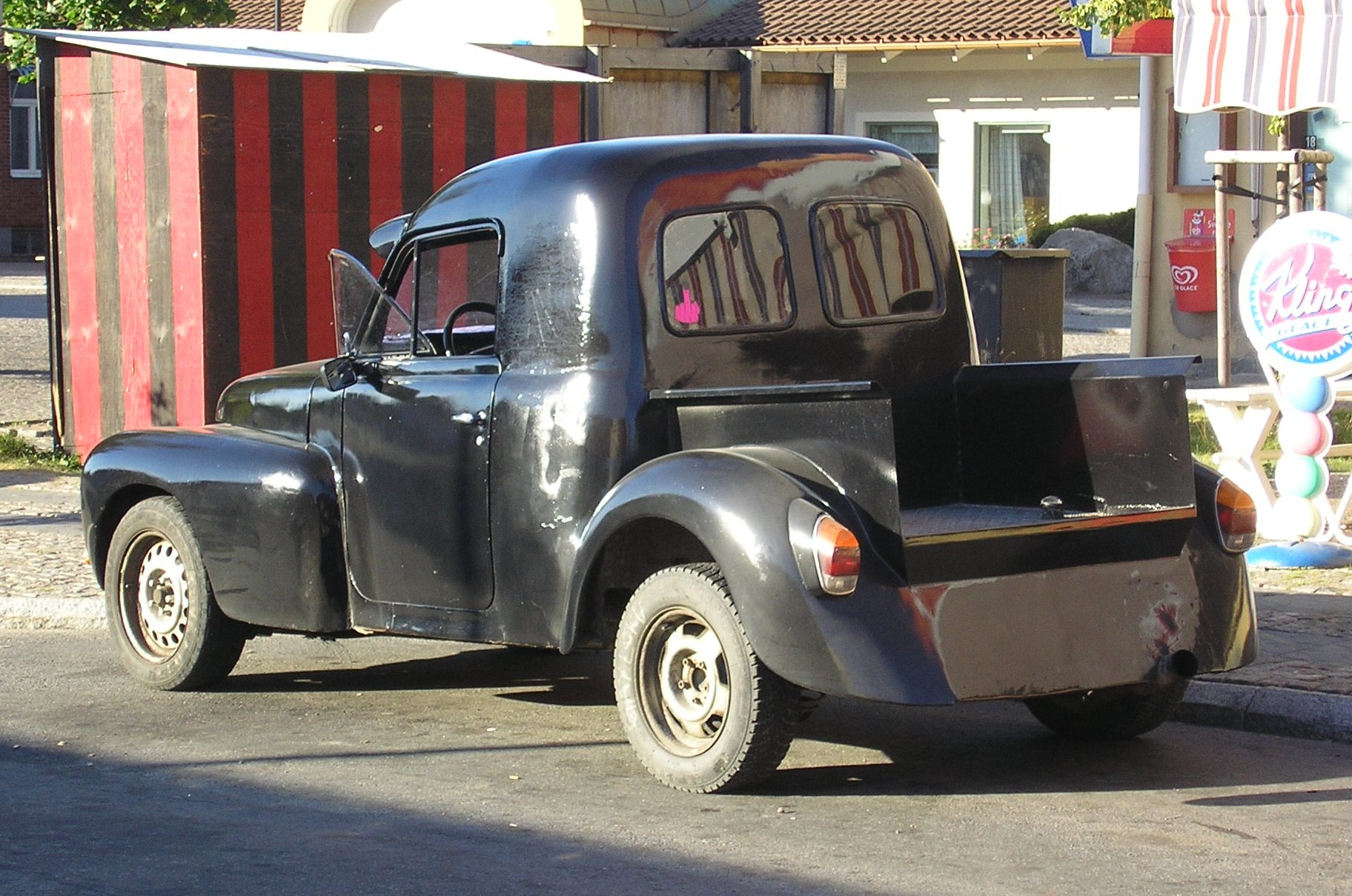 An EPA tractor based on a Volvo Duett.